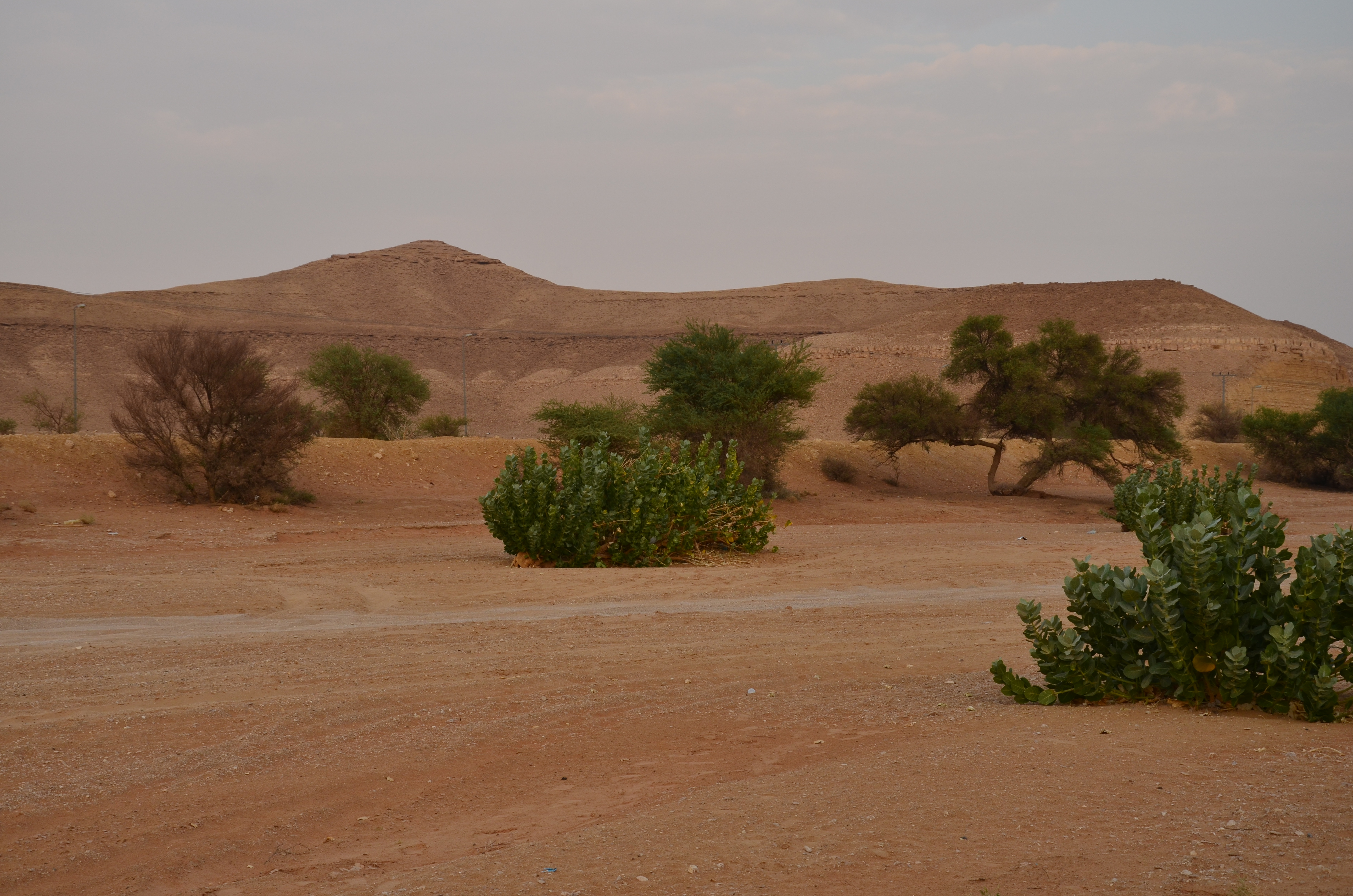 Al Oyainah Al-'Uyayna (Arabic: العيينة) is a village in central Saudi Arabia, located some 30 km northwest of the Saudi capital Riyadh.